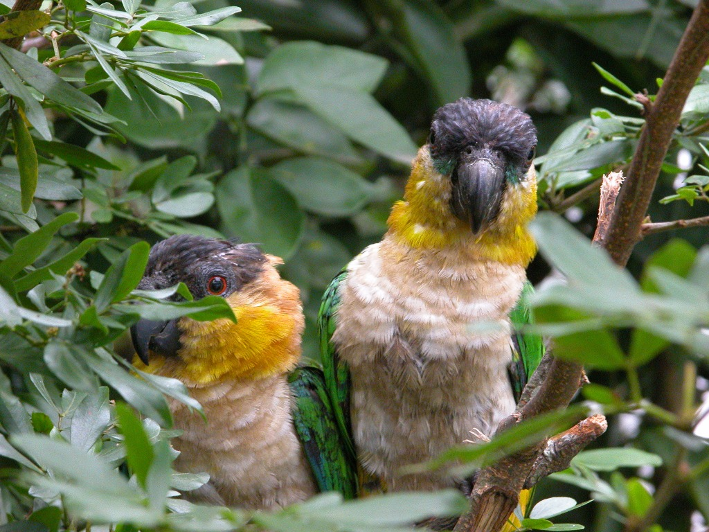 Two Black-headed Parrots in Tiputini, Equador.